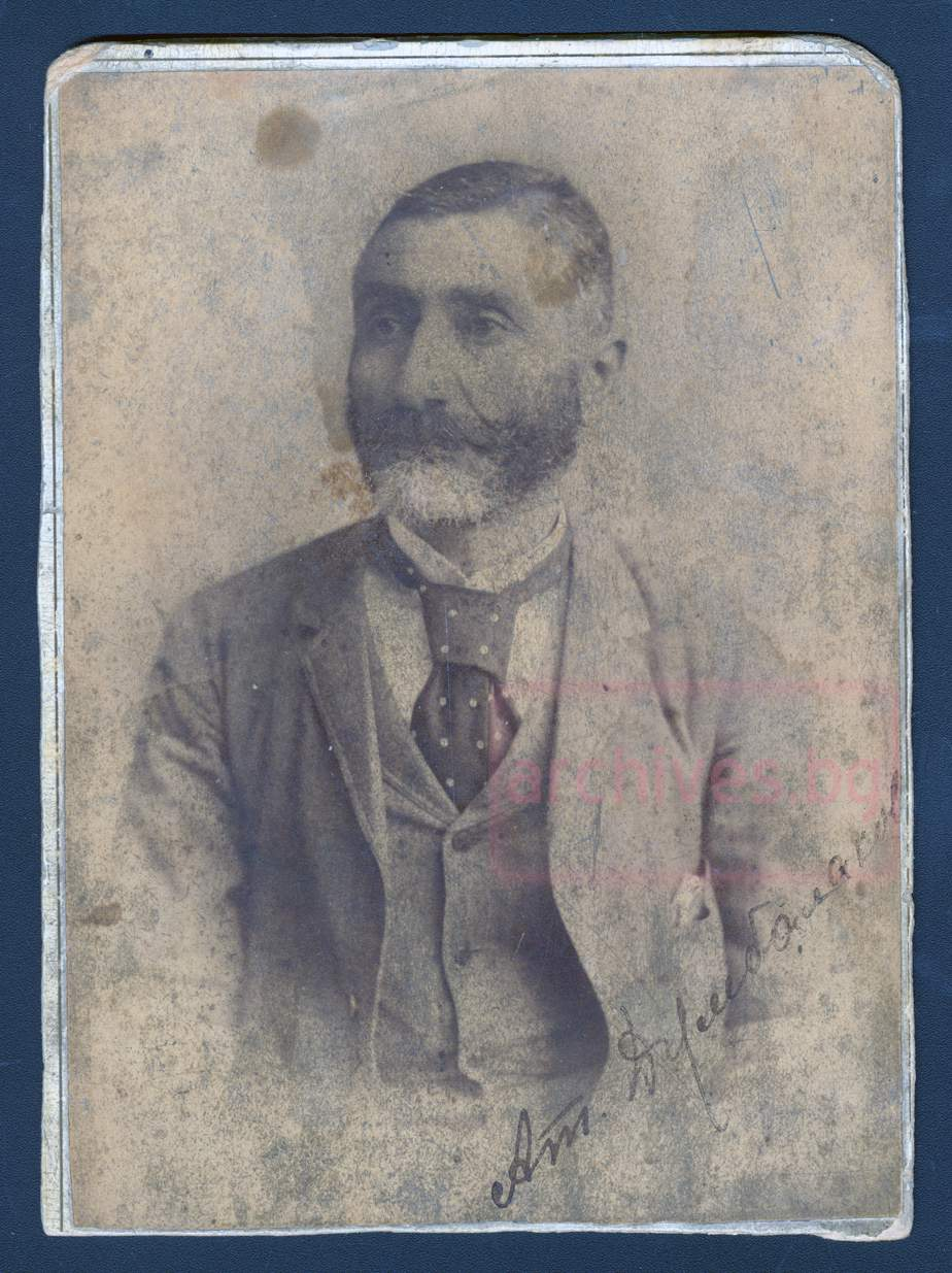 Atanas Dumbalakov